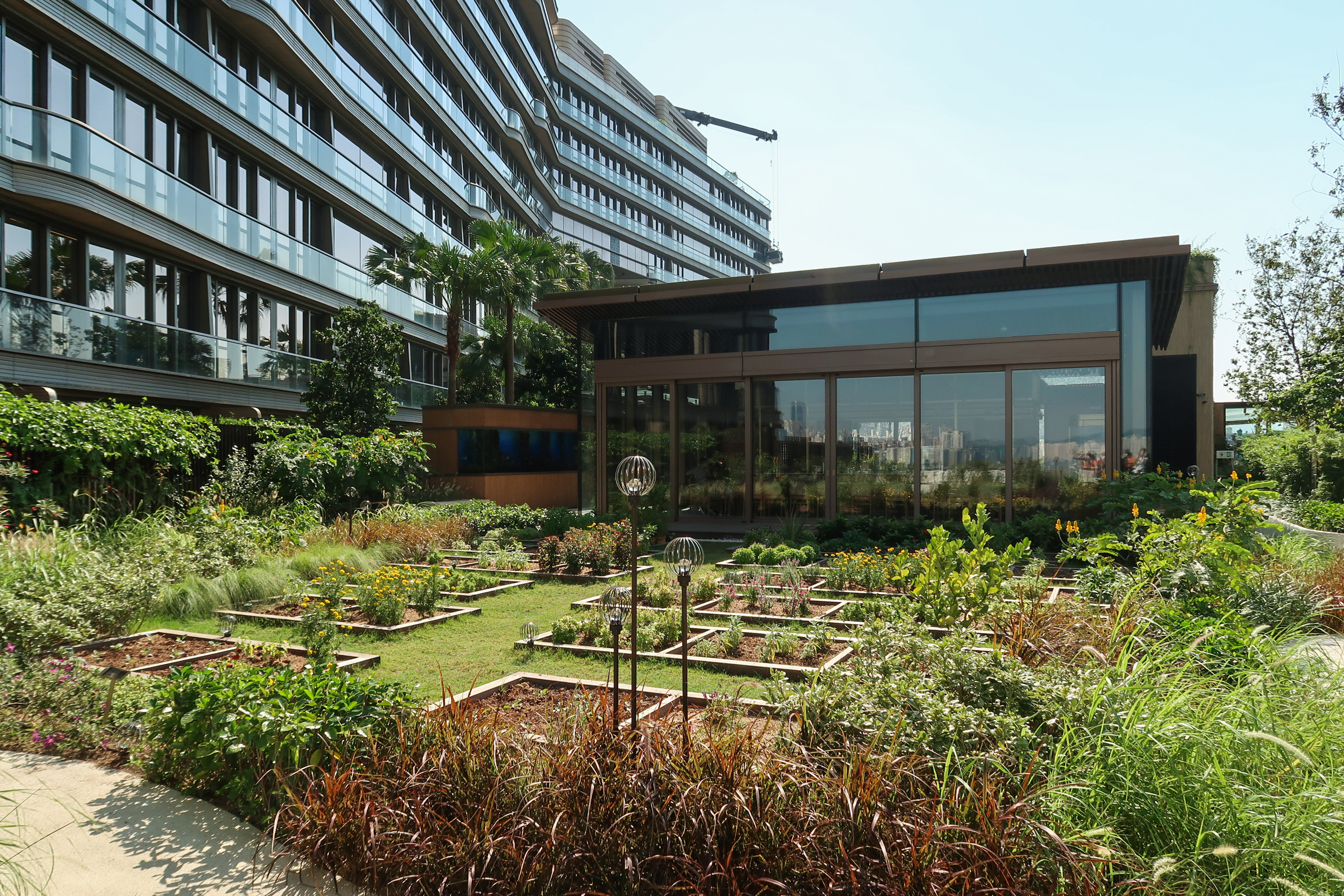 K11 MUSEA Nature Discovery Park